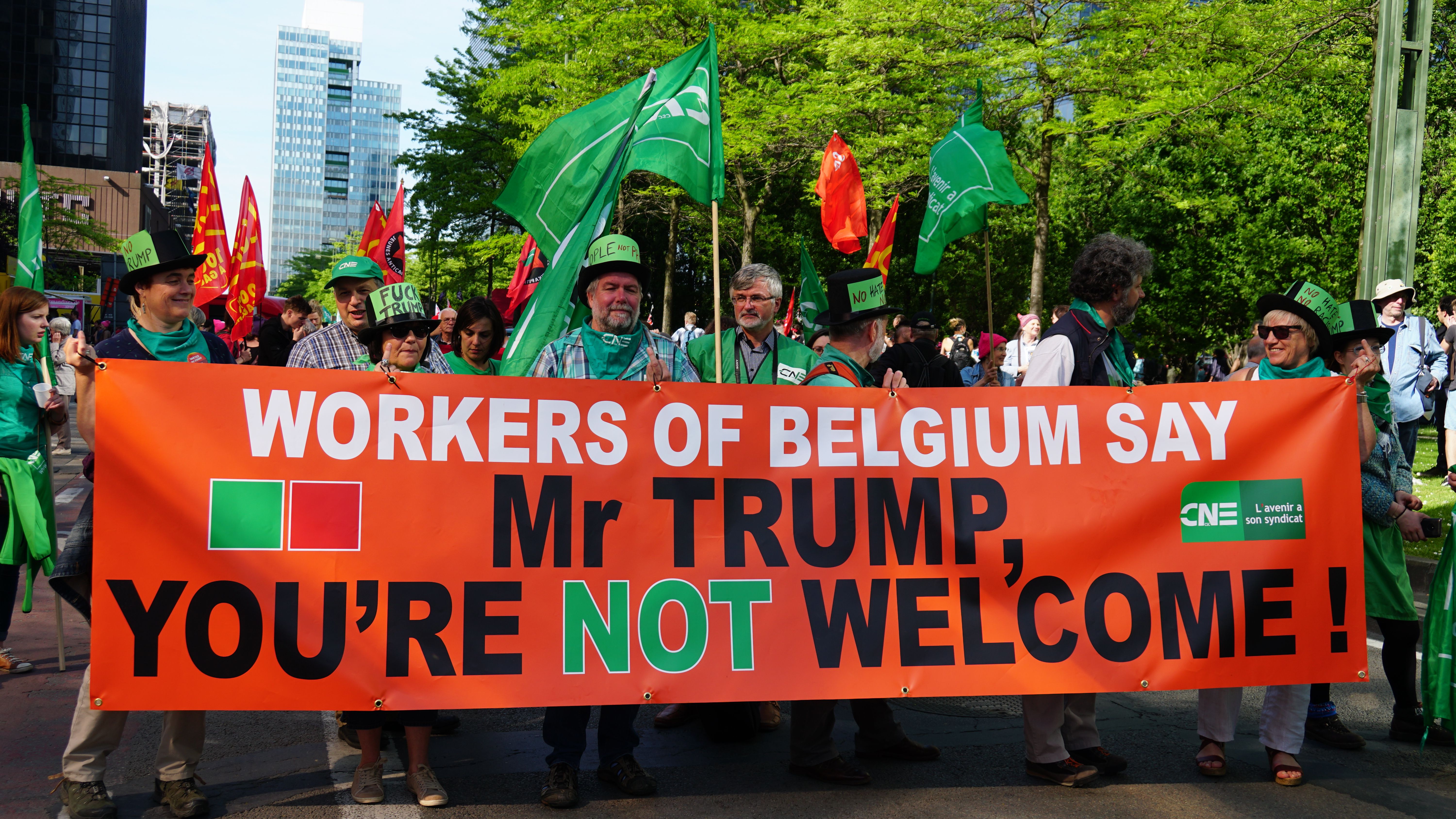 Protest March Trump not Welcome 24 May 5 PM - Brussels North Station At the end of May, Donald Trump, president of the United States, comes to Belgium to attend the NATO summit. These past months, Trump caused outrage all over the world: dividing and excluding people, denying climate change, intimidating the media, phasing out solidarity, ... We stand united in saying 'No!' to Trump, his policy and his European counterparts. Join us at the protest march Wednesday 24 May at 5 PM in Brussels: For social rights We stand up for the interests of the 99% and against the worldwide policies of cutbacks, the degradation of social rights and the weakening of the position of the working class. Against sexism, racism & Discrimination Rights acquired a long time ago are threatened. We oppose any form of discrimination and stand up for a humane policy for refugees. For peace For peace and against all military interventions that violate international laws. Against all military investments at the expense of education, health care, climate and international solidarity. For a liveable world We demand an ambitious and socially just climate policy for a sustainable future. Let your voice be heard and show them that we're united for a democratic, peaceful, sustainable and socially just future. United we stand!